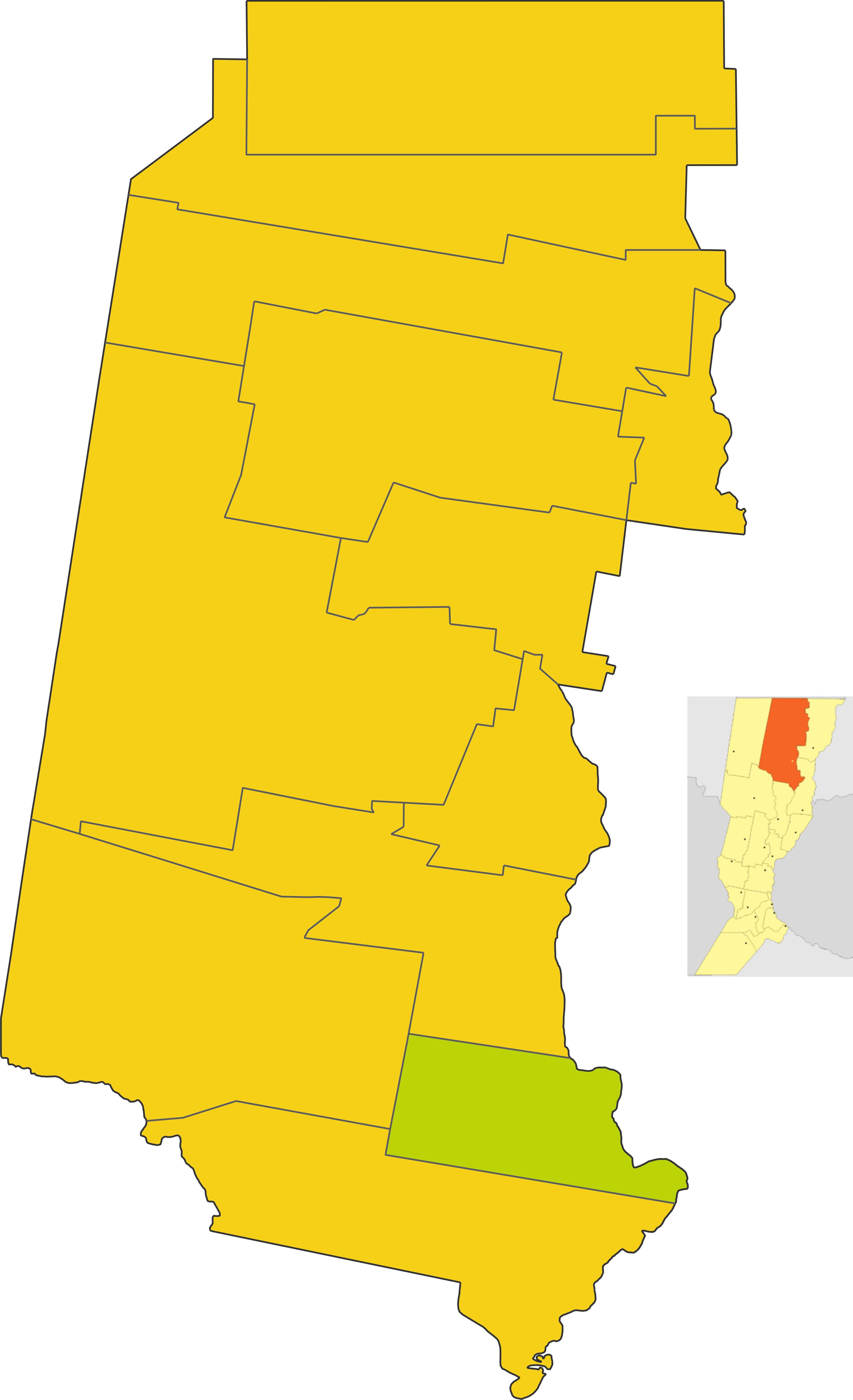 Map of the comuna de Margarita in Vera department, Santa Fe province, Argentina